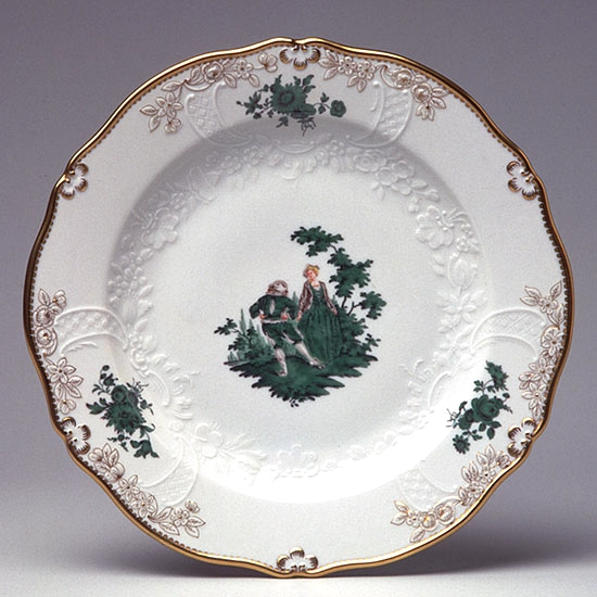 Plate, Watteau painting